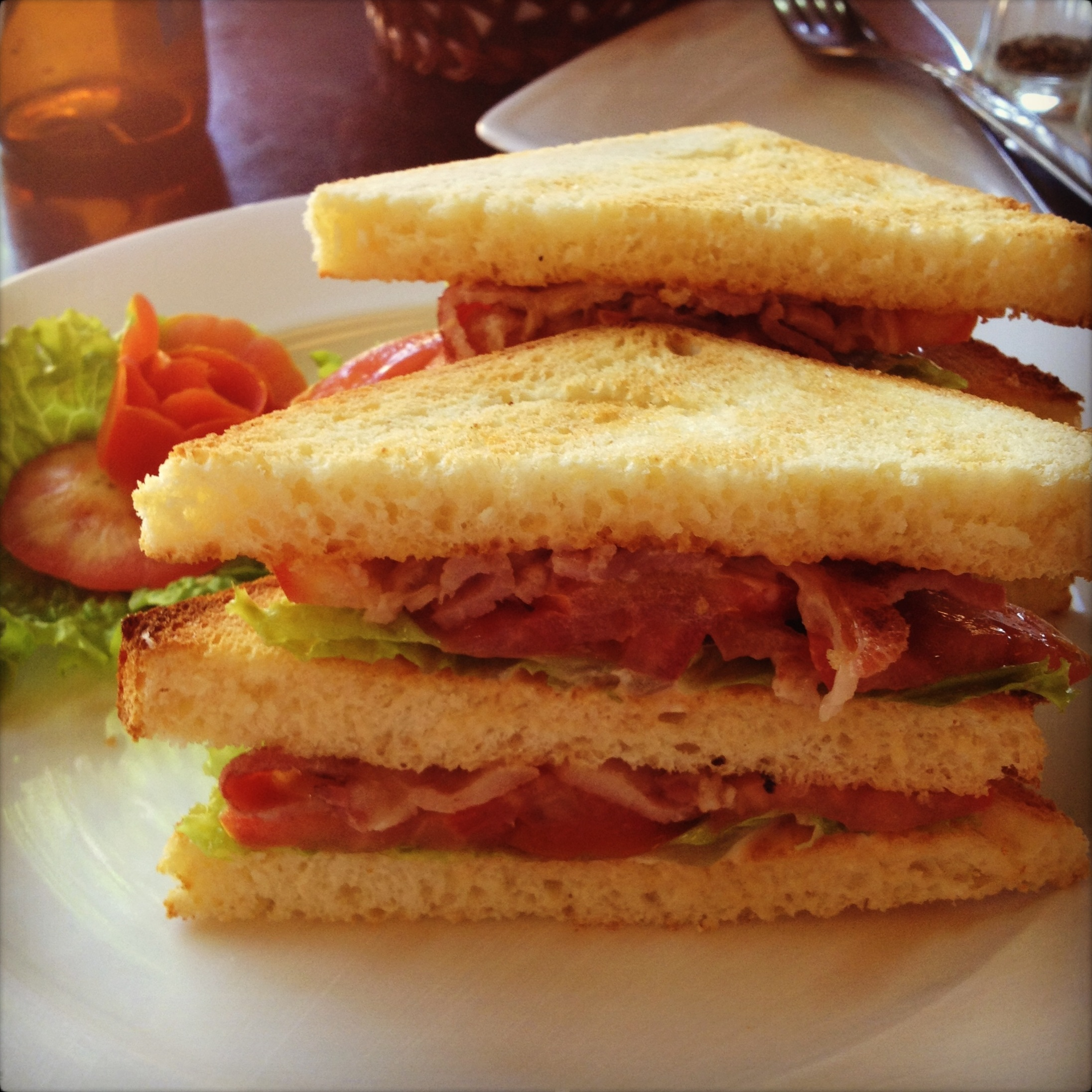 BLT sandwich.